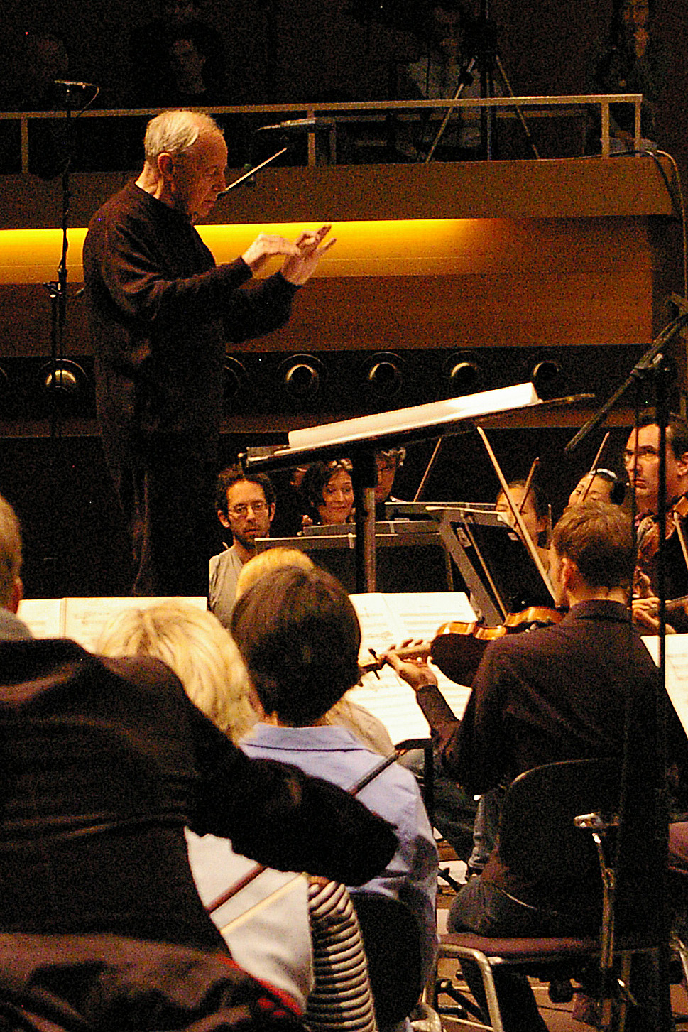 Pierre Boulez at the Donaueschinger Musiktage 2008 with the SWR Sinfonieorchester Baden-Baden und Freiburg